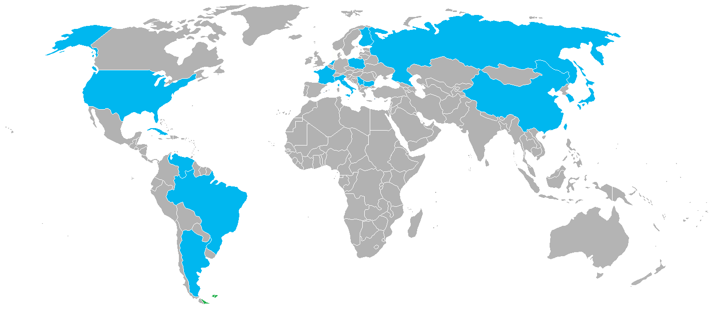 World league 2009 teams